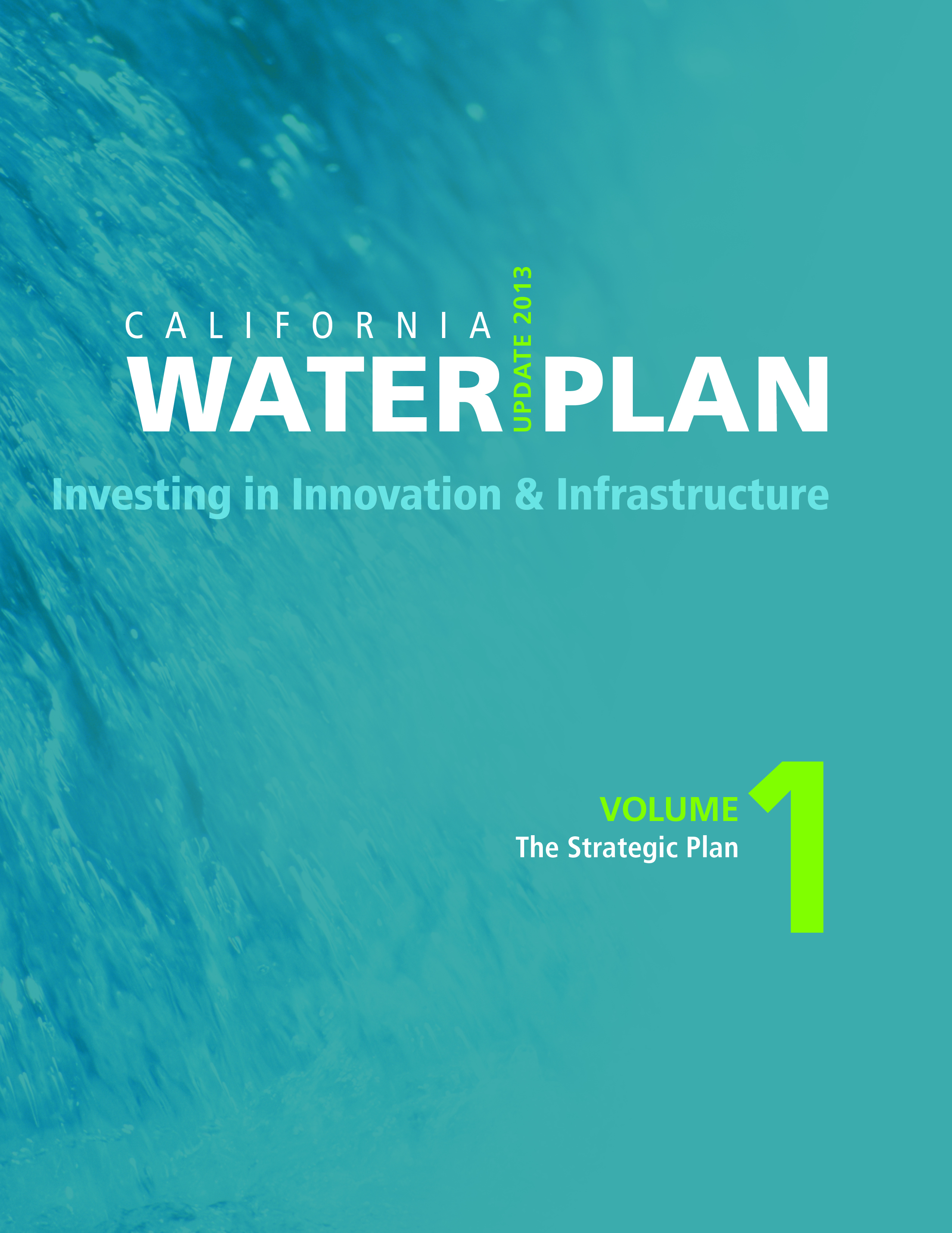 The cover of Volume 1 from the California Water Plan Update 2013.